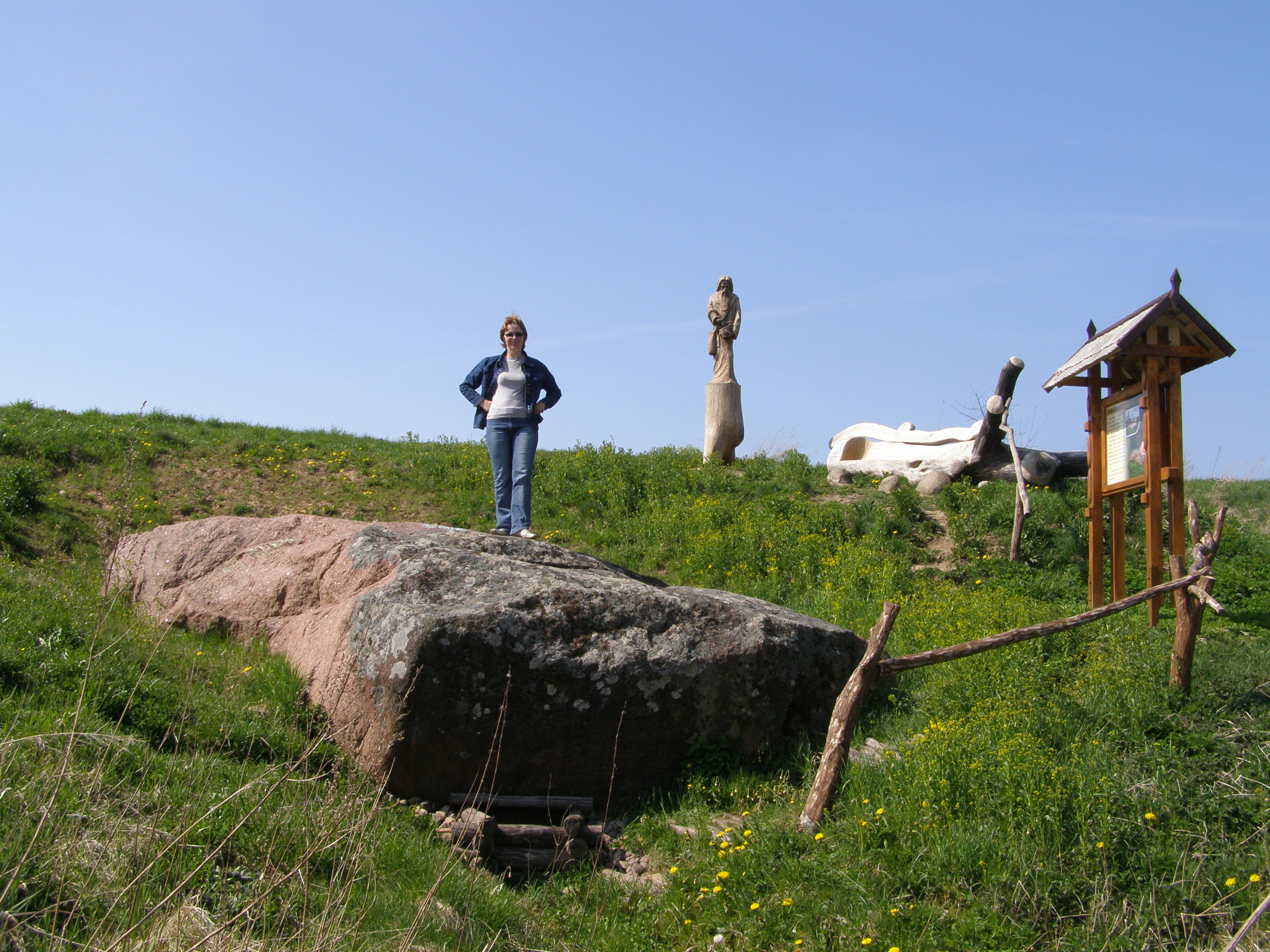 Senoji Įpiltis, Kretinga district, Lithuania